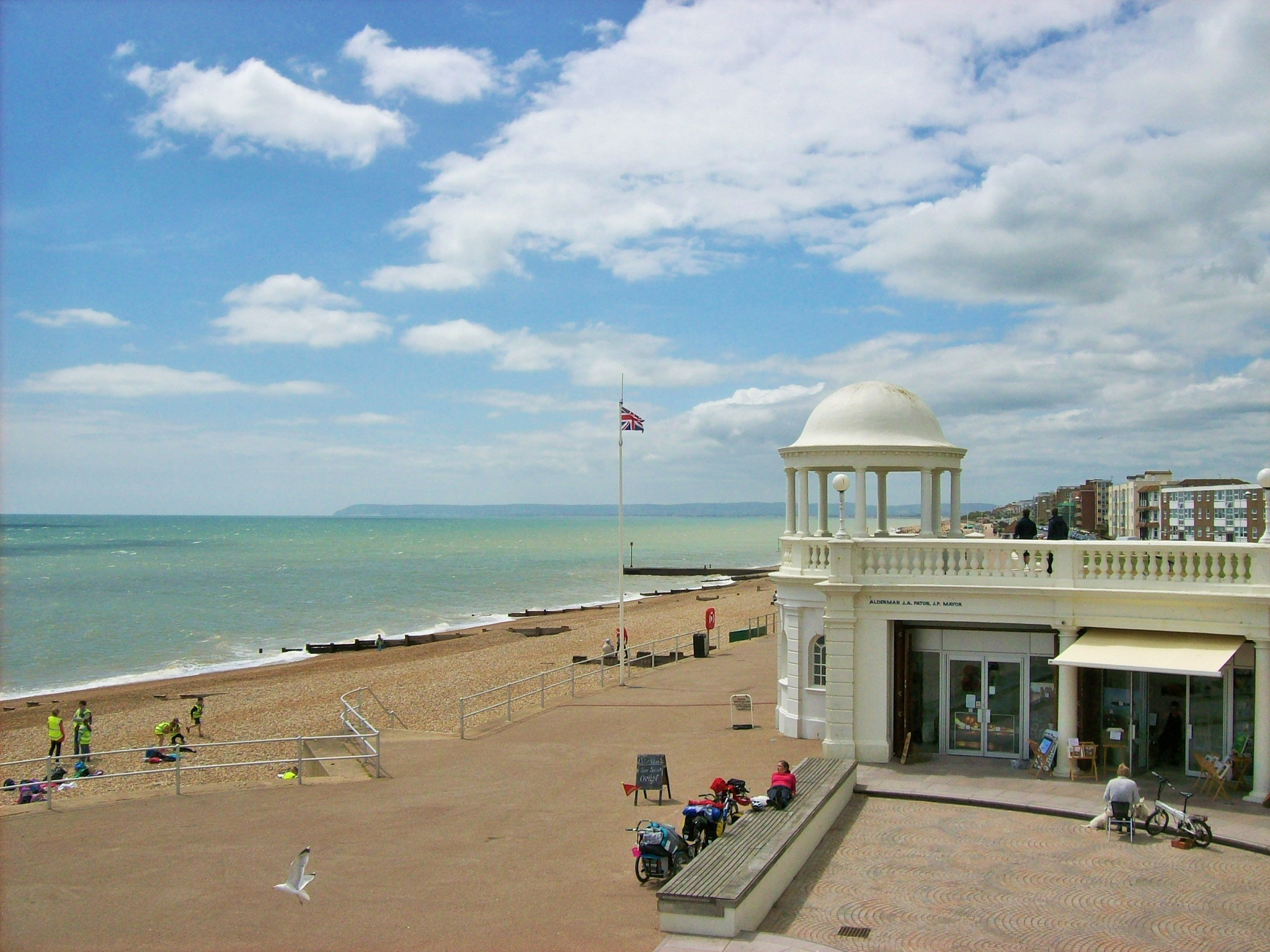 Bexhill sea front